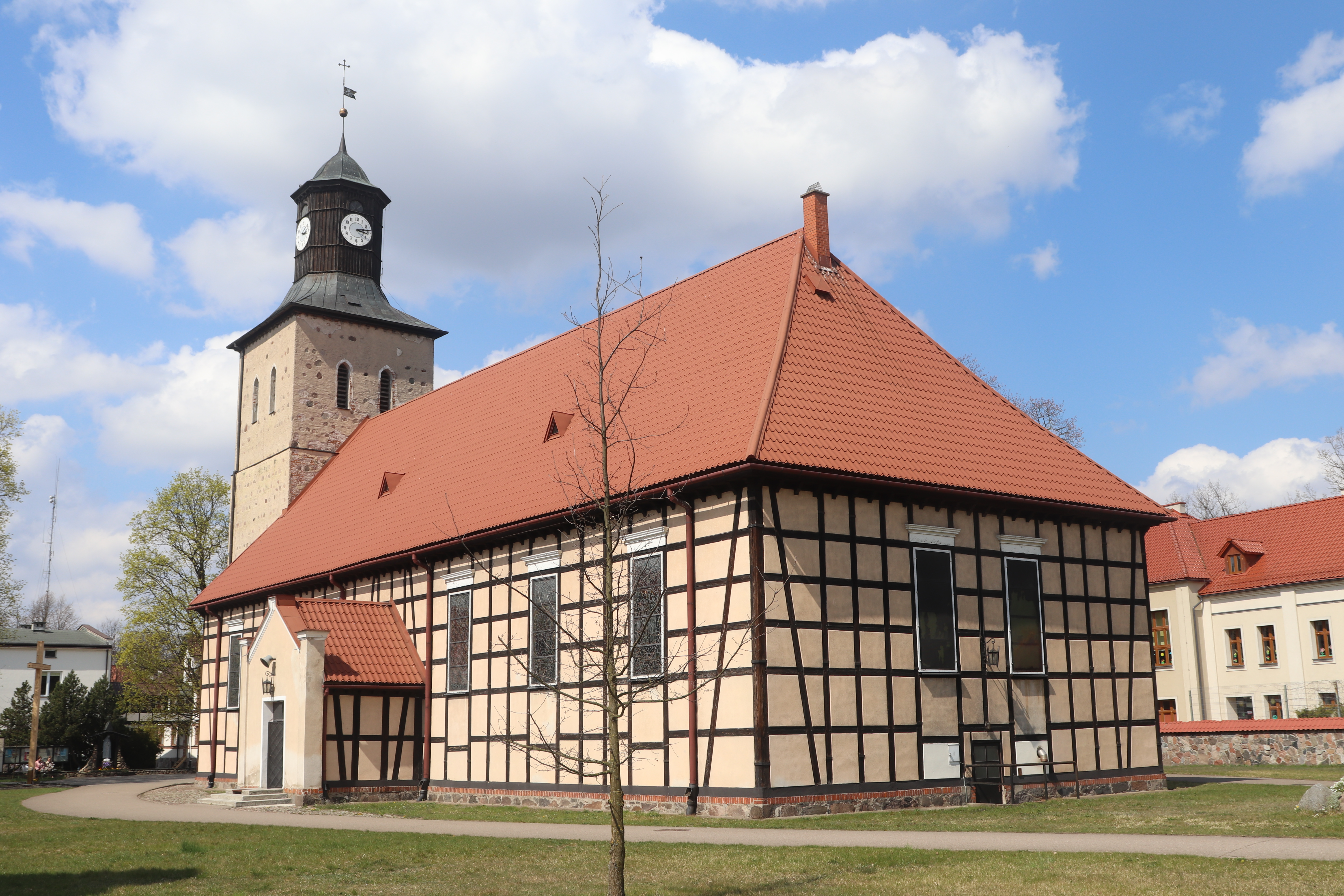 Pisz - St. John the Baptist church